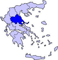 Map of Greek periphery